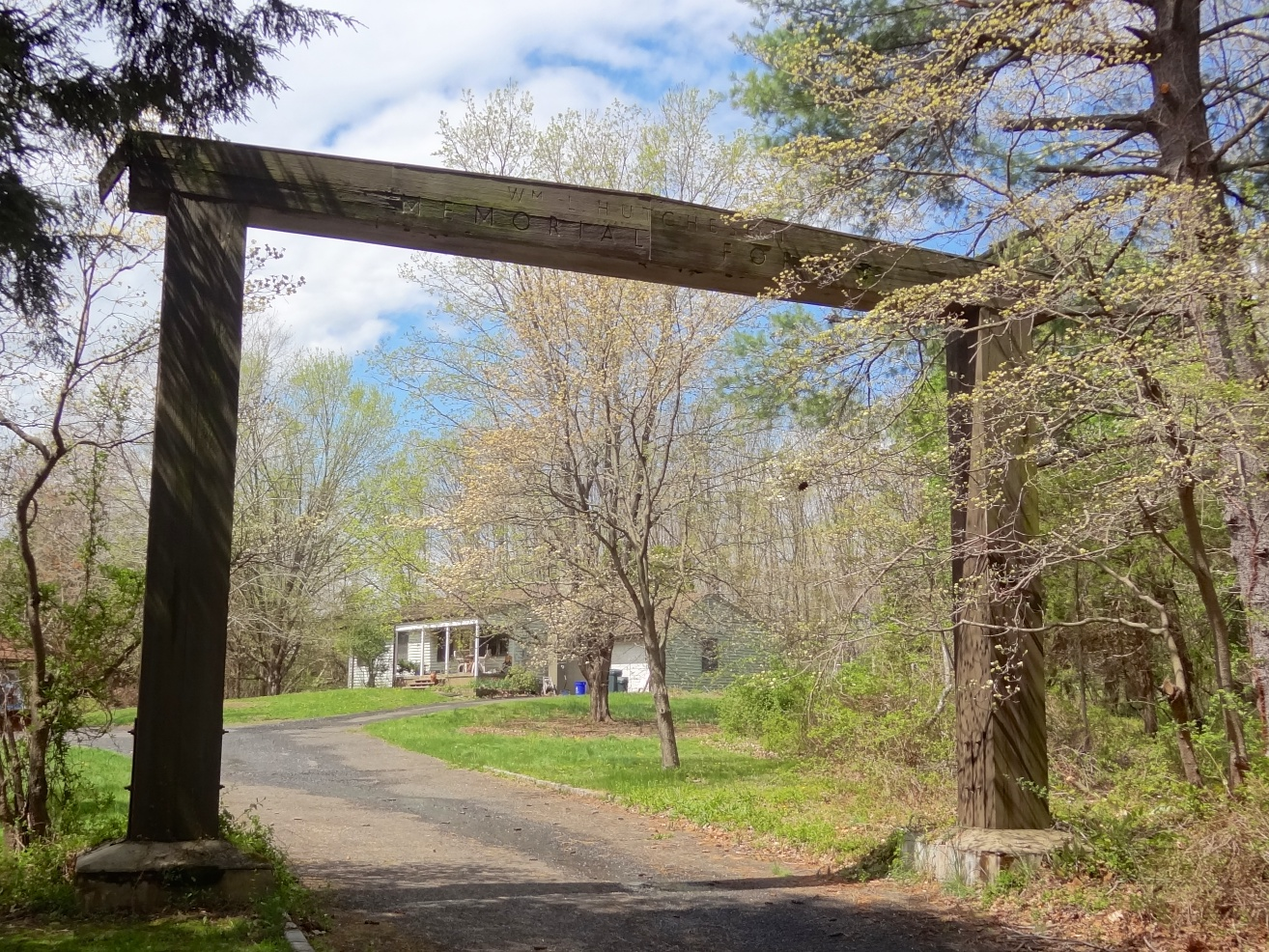 Entrance to Hutcheson Memorial Forest.